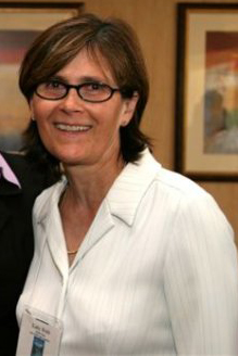 Representative Kathy Webb